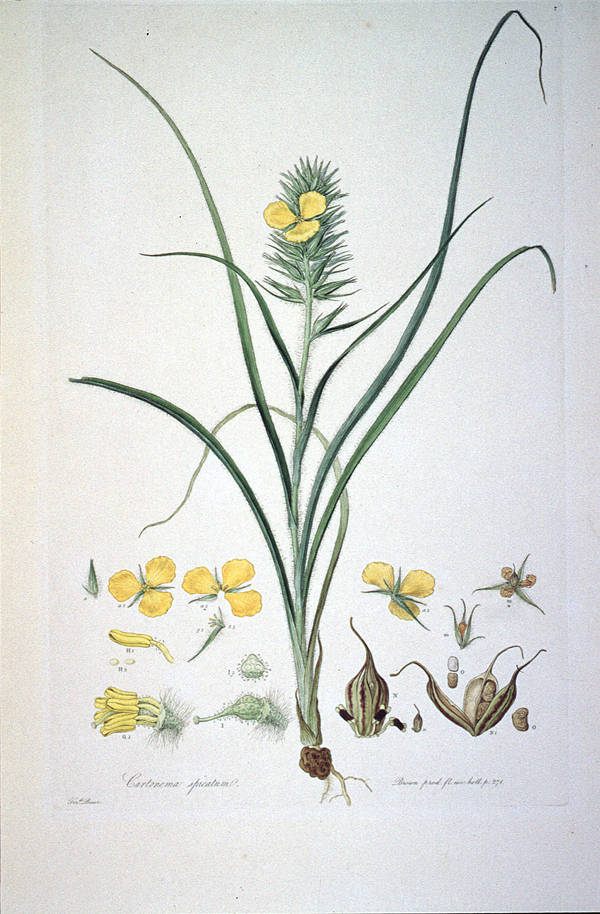 This is a scan of Plate 7 from Ferdinand Bauer's Illustrationes Florae Novae Hollandiae. The plant featured is Cartonema spicatum.